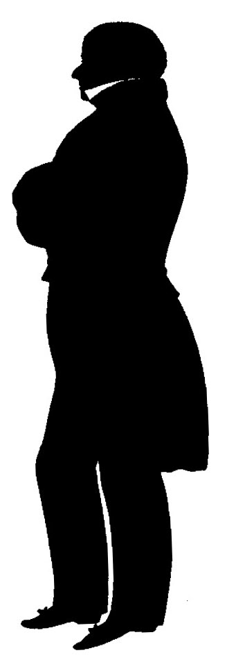 Silhouette of William Ritchie, founder of The Scotsman newspaper in Edinburgh